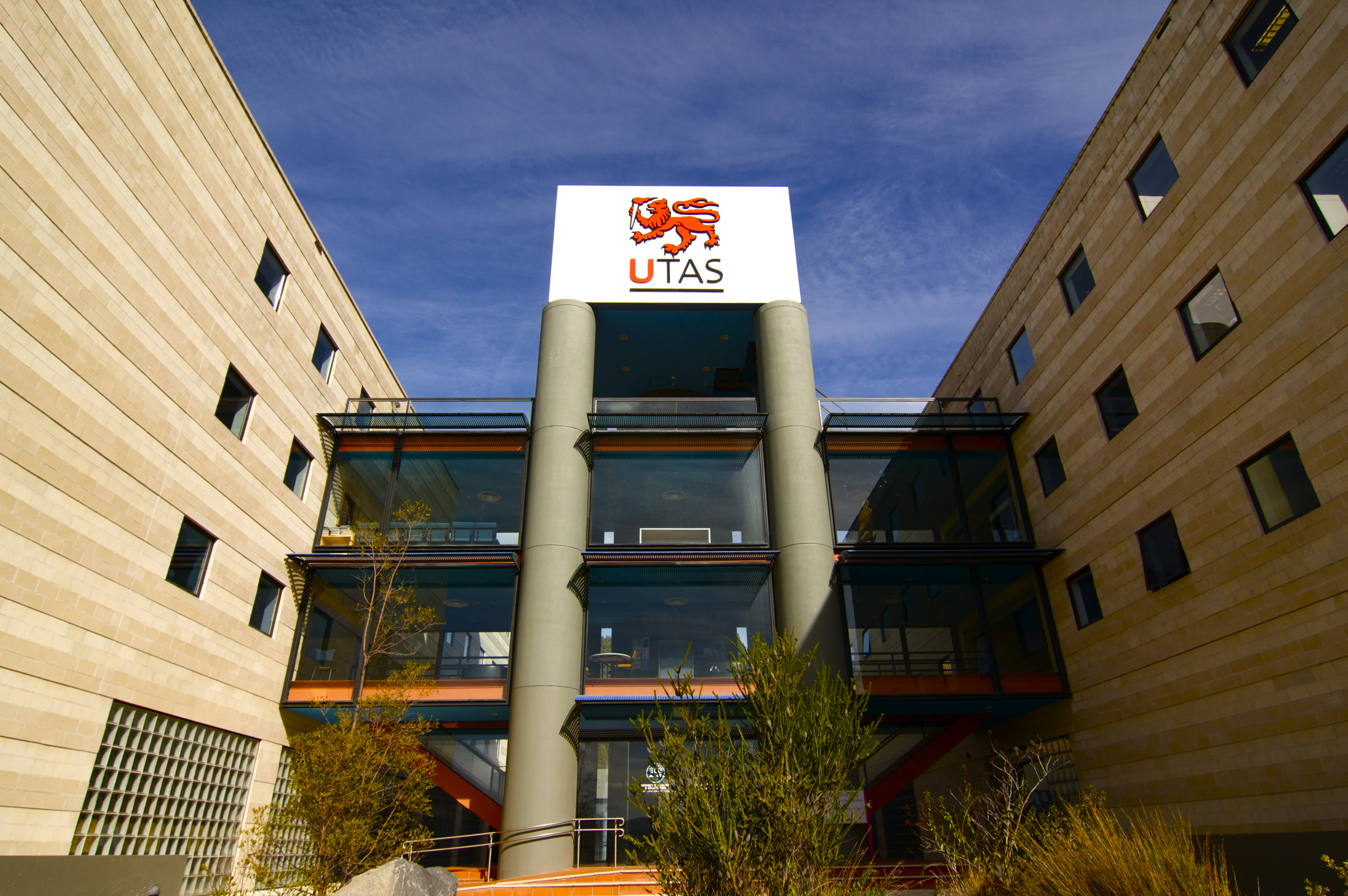 The Centenary Building on August 20, 2009